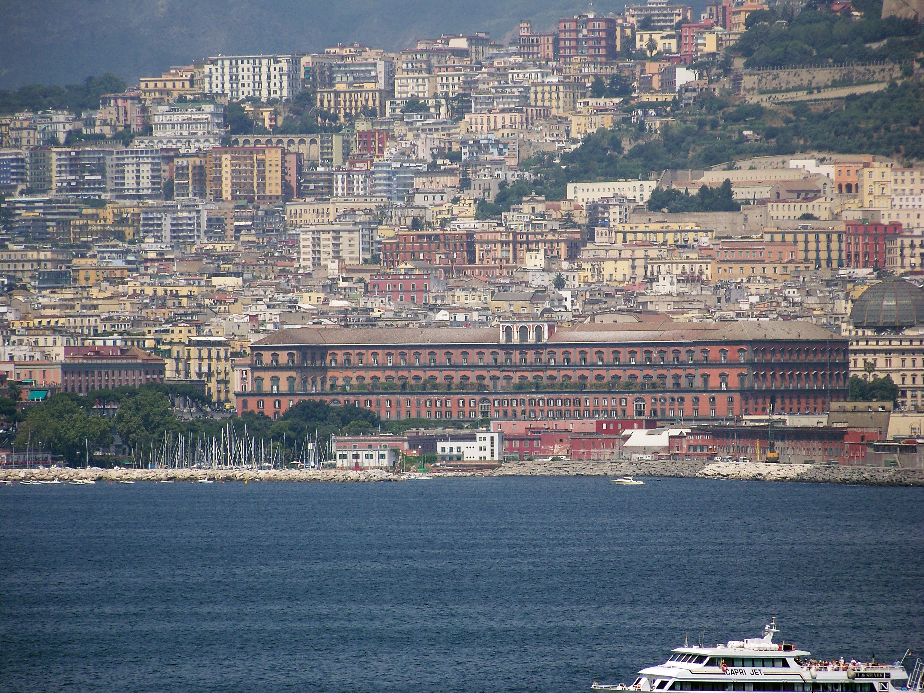 Naples, Italy